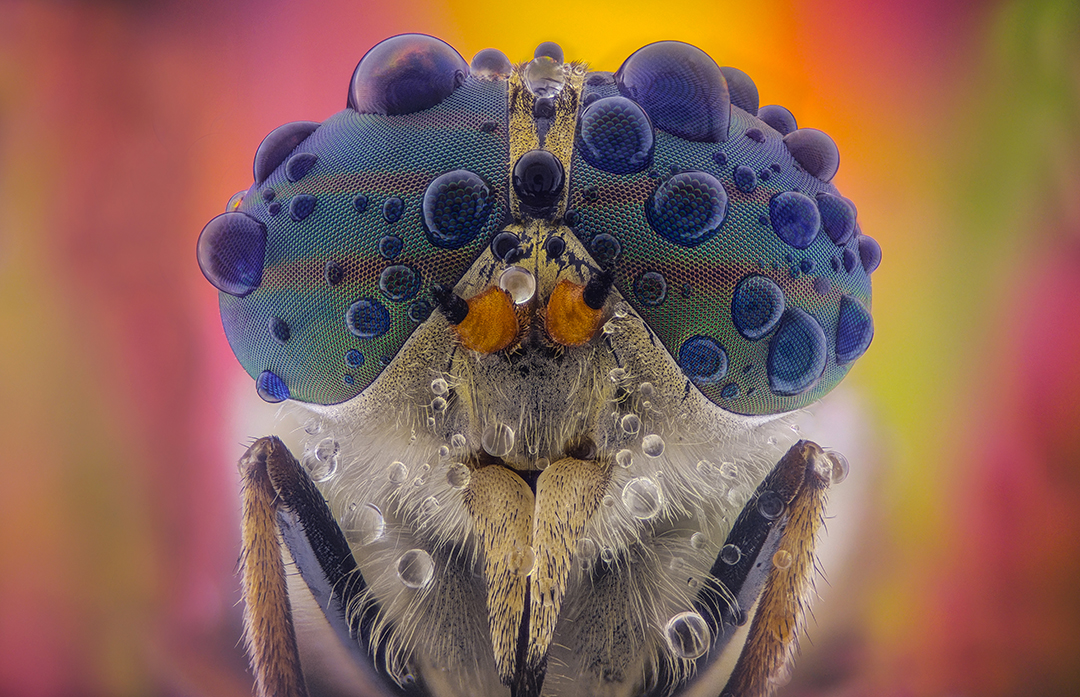 Horsefly drops